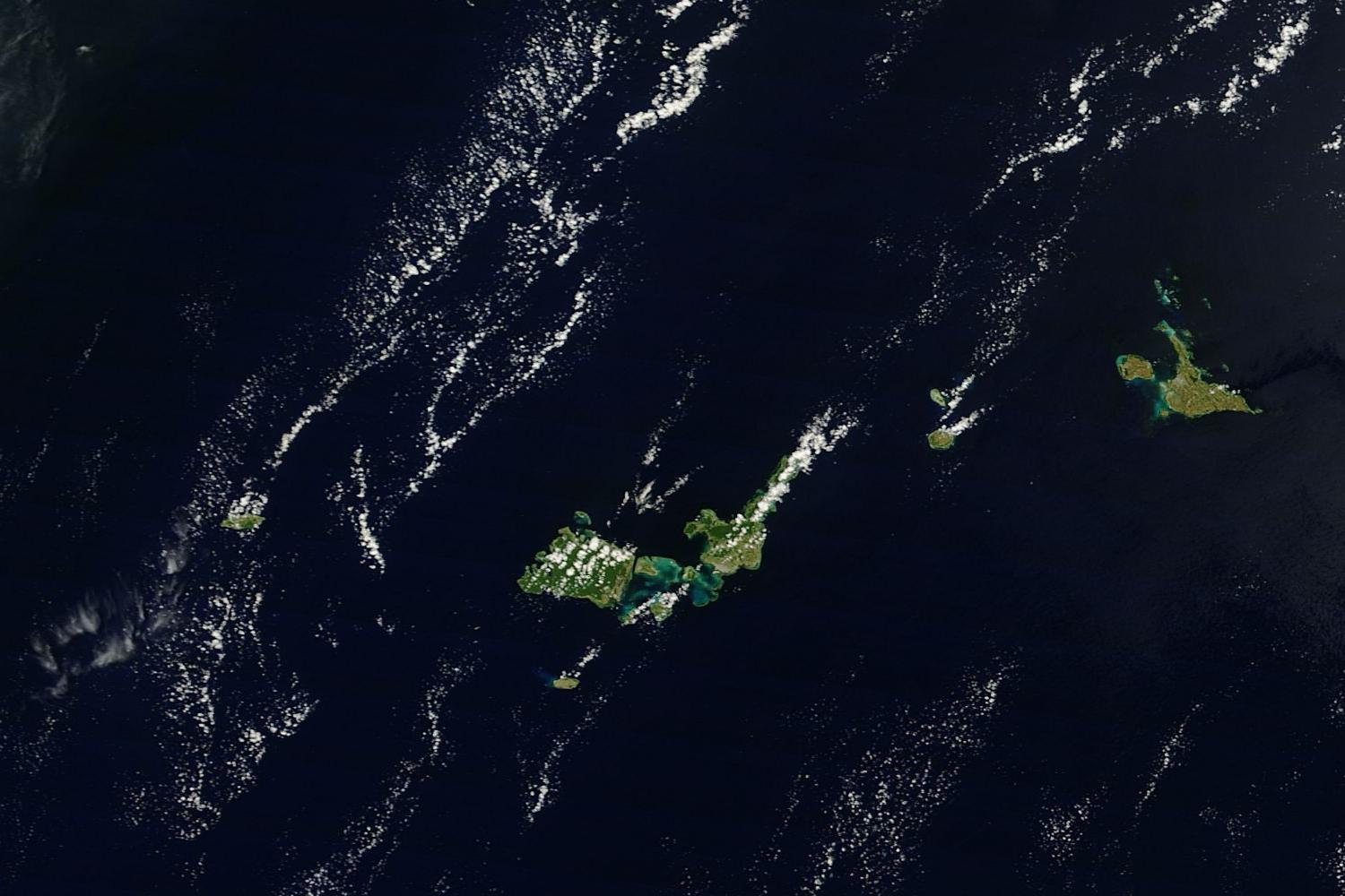 Sakishima Islands, Okinawa, Japan.